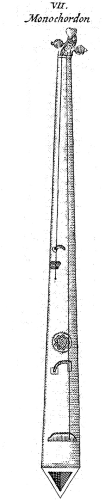 Bowed string instruments of 17th century Europe, labeled in Latin. Although this is clearly labeled a monochord, it is not. It is most certainly a two-stringed tromba marina, or marine trumpet, a bowed harmonic instrument that sounds a bit like a bugle. The bridges are designed to buzz, and as such, are easily identifiable.